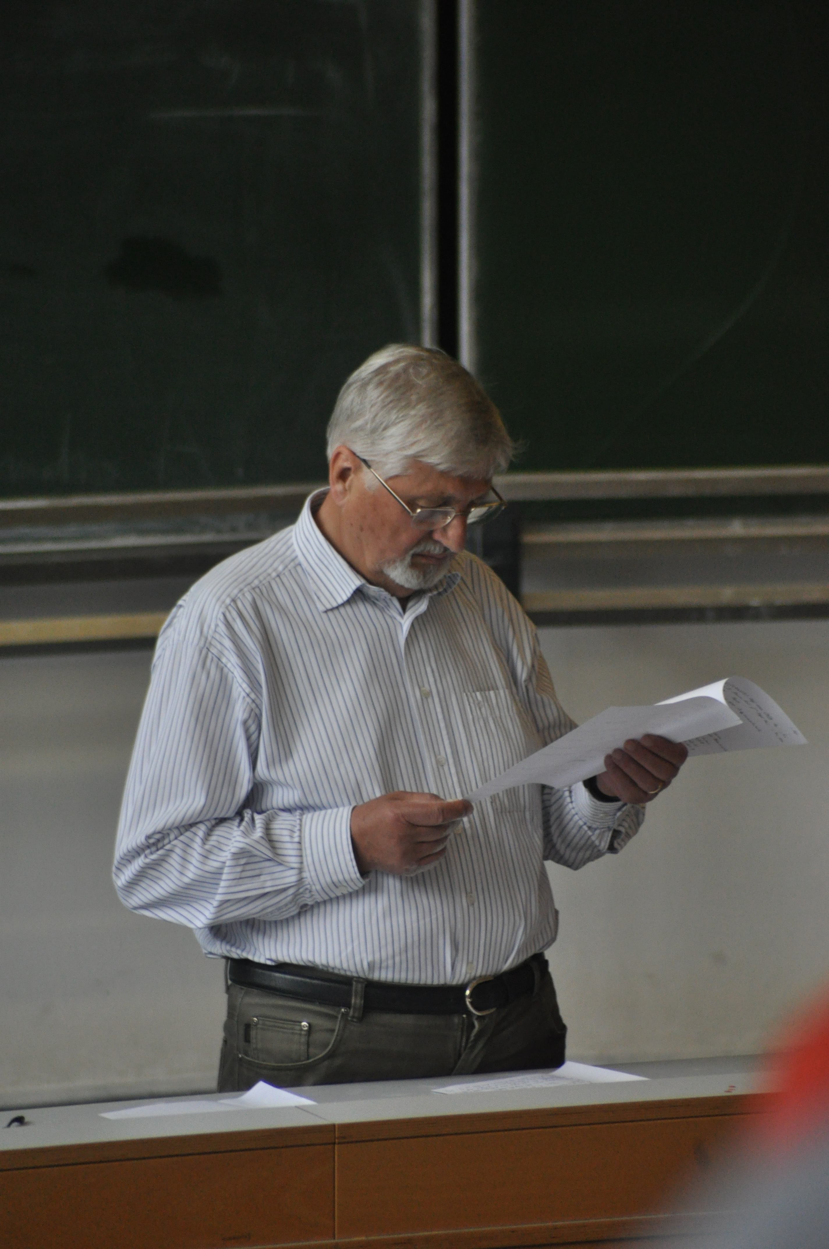 Falko Lorenz 2012